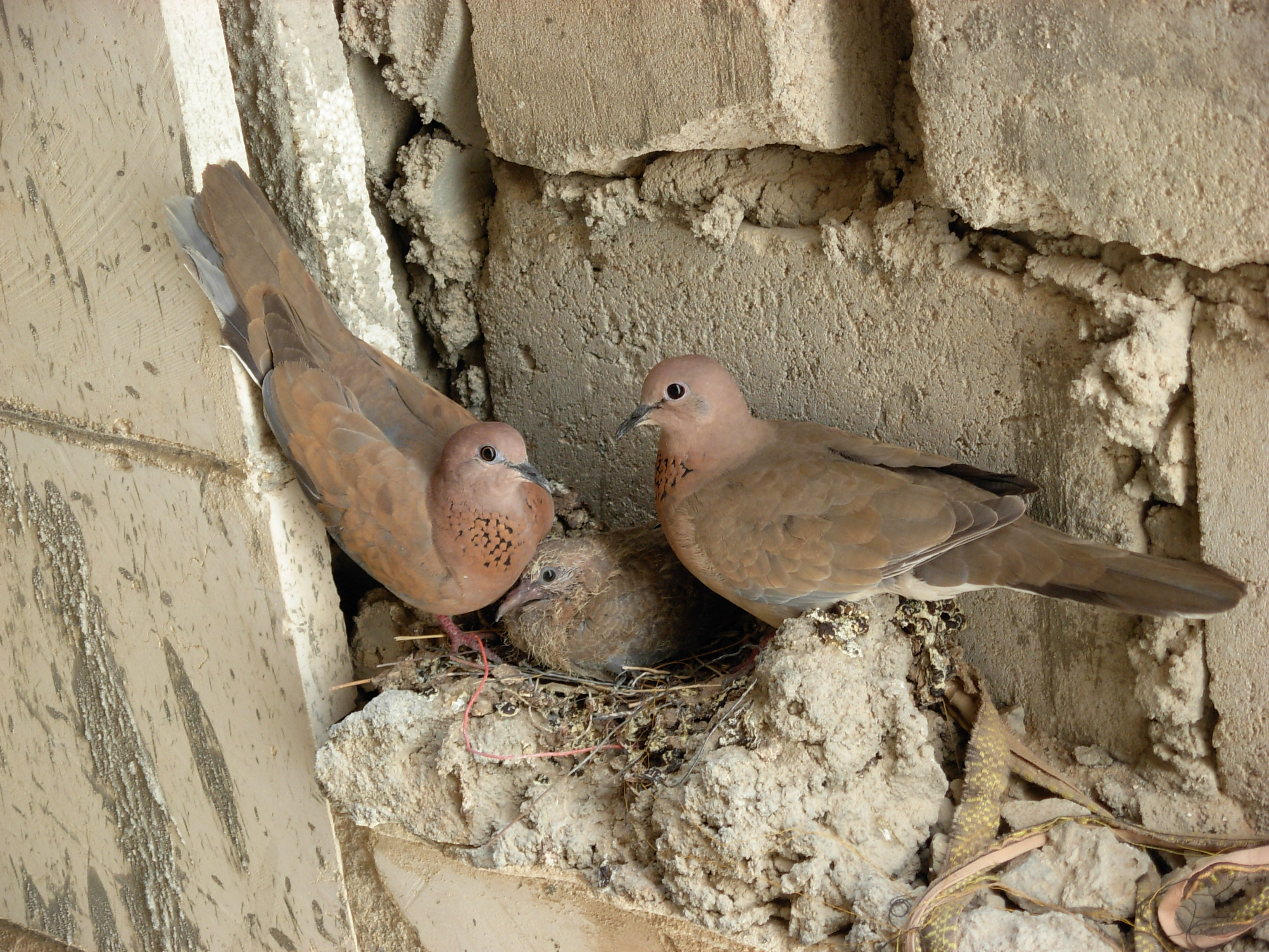 Laughing Dove pair with young in Kuwait